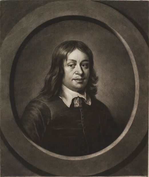 Richard Penderel (circa 1606-1672), Royalist and farmer. Charles II nicknamed him, Trusty Dick Penderell. A woodcutter and farmer he sheltered Charles after his defeat at the Battle of Worcester in 1651. Portrait by Richard Houston, after Gerard Soest. Mezzotint, published 1798.